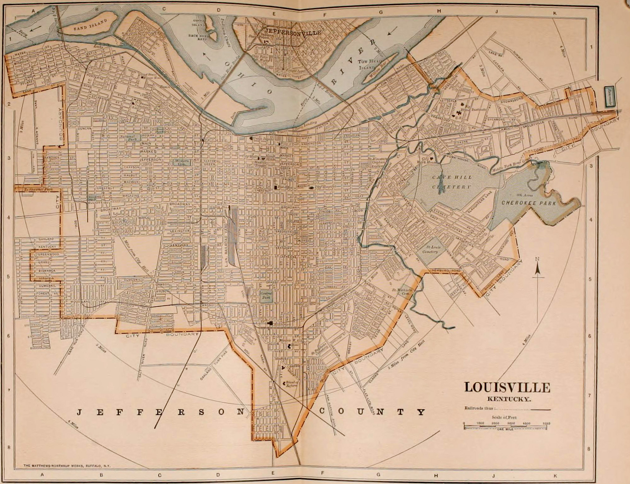 Map of Louisville, Kentucky.